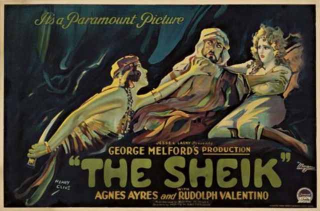 The Sheik (1921) Poster